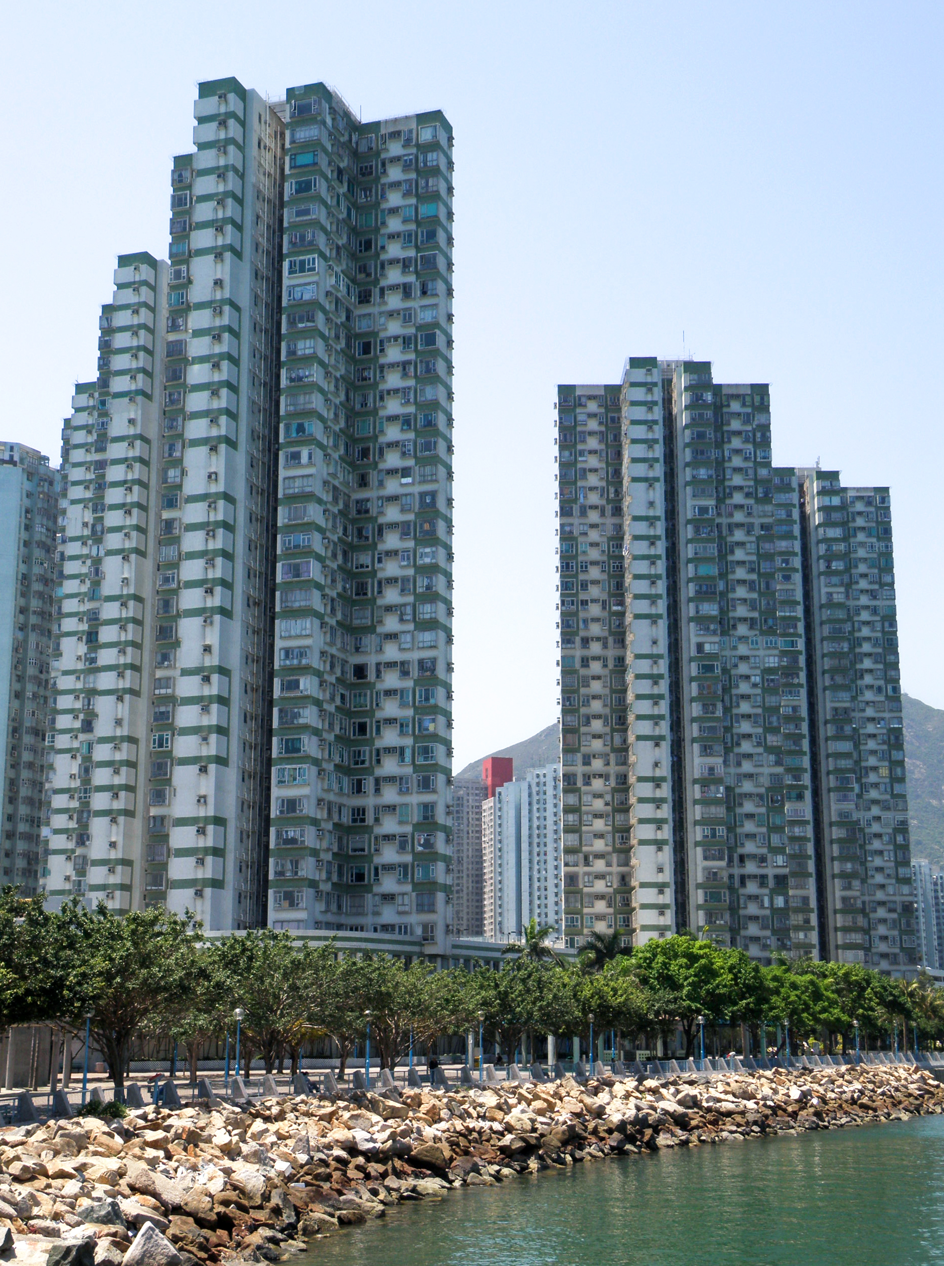 Marina Garden in Tuen Mun, Hong Kong.